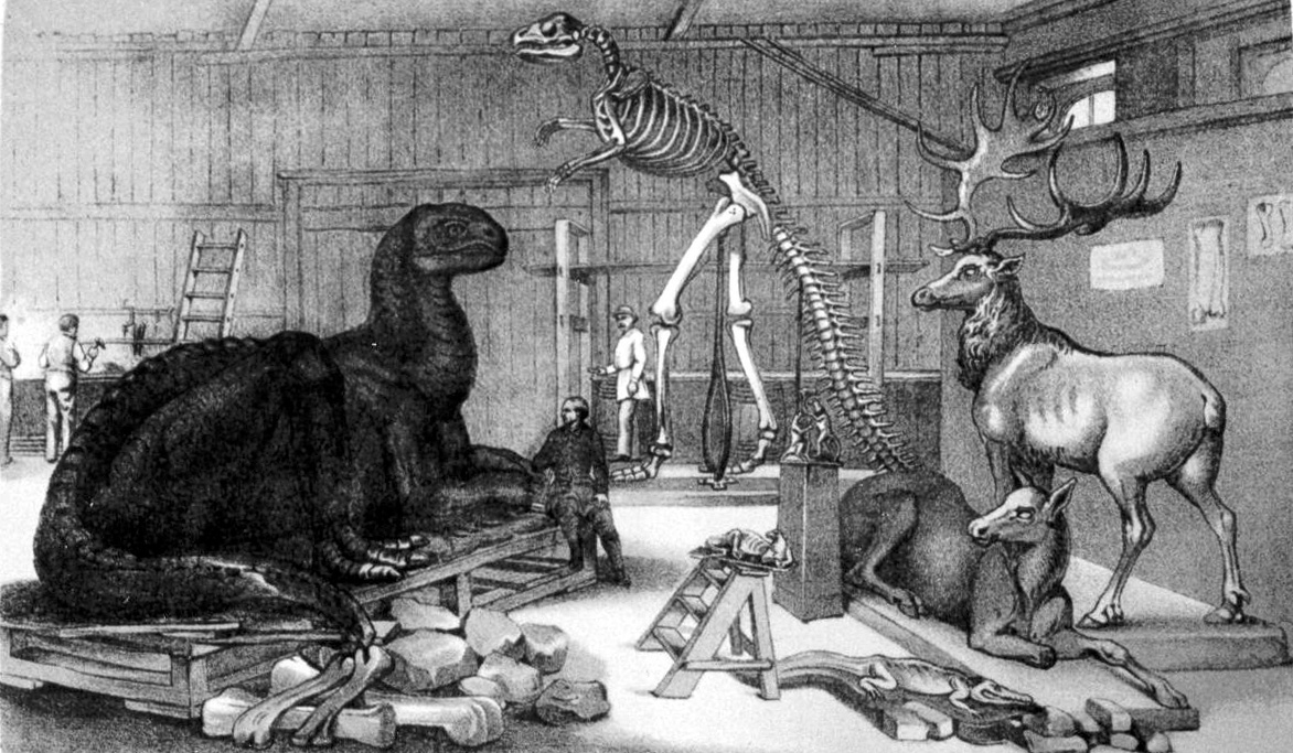 Benjamin Waterhouse Hawkins' studio at the Central Park Arsenal, with models of extinct animals. Published in The 12th Annual Report of the Board of Commissioners of the Central Park for the Year Ending December 31, 1868.